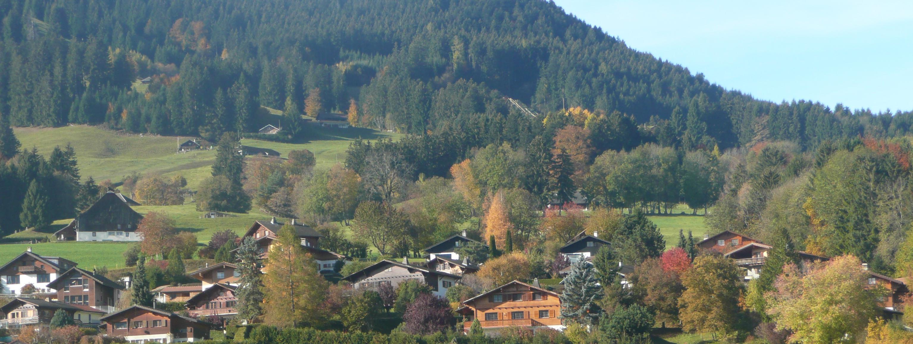 Le Pâquier-Montbarry (Le Pâquier (Fribourg)) (autumn)